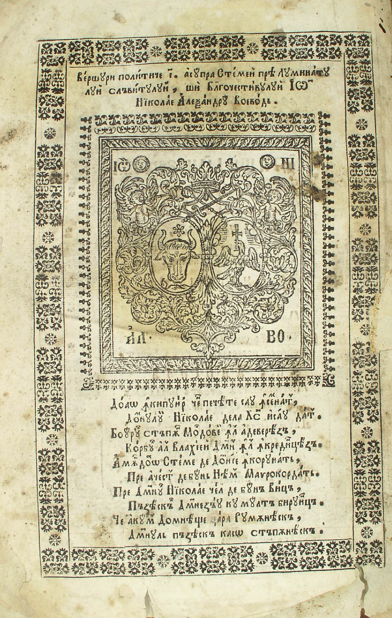 "Holy and Godly Gospel Book", page #2. Printed in Bucharest in 1723 during the reign of Nicolae Mavrocordat, in Romanian with Cyrillic characters. The image shows in the left the coat of arms of Moldavia (an or/aurochs head) and in the right the coat of arms of Wallachia (aquila and Cross). See also: Page #1 of the book. TranscriptionTransliterationВє́ршȢри пoʌи́тичє ı҃. а҆сȢ́пра Стє́мєй прѣ ΛȢмина́тȢʌȢй сʌъви́тȢʌȢй, шѝ Бʌ҃гoчєсти́вȢʌȢй І́Ѡ҃ Нїкoʌа́є А҆ʌєѯа́ндрȢ҆ Вoєвóдь.Verșuri politice I. asupra Stemeĭ prea Luminatuluĭ slăvituluĭ, și Blagocestivuluĭ IO Nïcolae Alexandru Voevod'.ІѠ҃ НІ А҆Λ. ВО. Дóаѡ ꙟ҆кипȢи́р҆ чє҃ пєчѣ́тє саȢ ꙟ҆сємна́тȢ, ДoмнȢʌȢ̏ Нїкoʌа́є дєʌа Хс҃ и҆саȢ да́тȢ. БoȢ́рȢʌ стъпѫ҃ Мoʌдóвє̏ ꙟ҆ʌȢ а҆дєвєрѣ́ӡъ, КóрбȢʌ а҆ʌȢ Вʌаꭓíєй Дм҃нȢ ꙟ҆ʌȢ ꙟ҆крєди҃цѣ́ӡъ. А҆мѫ҃дóаѡ Стє́мє дє Дoмнíє ꙟ҆кoрȢна́тъ, Прє а҆чє́стȢ дє бȢ́нь НѣмȢ Маѵрoкoрда́ть. Прє Дм҃нȢʌ Нїкoʌа́є чє́ʌȢ дє бȢ́нъ Ви́цъ, Пъӡѣ́скъʌ Дм҃нєӡъ́Ȣ кȢ мȢ́ʌтъ бирȢи́҃цъ. Чє а҆кȢ́мȢ Дoмнѣ́щє ца́ра РȢмѫнѣ́скъ, Дм҃нȢʌь пъӡѣ́скъ касѡ стъпѫнѣ́скъ.IO NI AL. VO. Doao închipuirĭ cen peceate sau însemnatŭ, Domnuluĭ Nïcolae dela HS [Hristos] isau datŭ. Bourul stăpân Moldoveĭ îlŭ adeverează, Corbul alŭ Vlahieĭ Domnŭ îlŭ încredințează. Amândoao Steme de Domnie încorunată, Pre acestŭ de bun' Neamŭ Mavrocordat'. Pre Domnul Nïcolae celŭ de bună Viță, Păzeascăl Dumnezău cu multă biruință. Ce acumŭ Domneaște țara Rumânească, Domnul' păzească caso stăpânească.